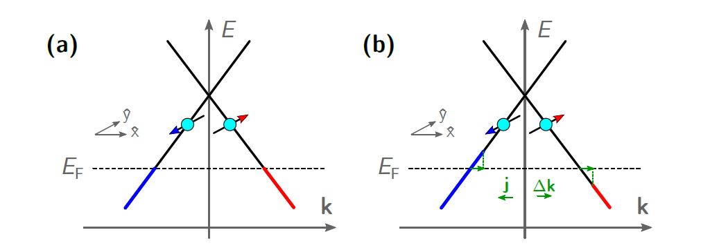 Topological insulator bands (a) in equilibrium and (b) in a non equilibrium situation when a spin-charge interconversion meccanism occurs. The non-equilibrium case can be produced by two possible effects: the injection of a charge current (i.e., a momentum unbalance) which produces a spin accumulation (Edelstein effect) or the injection of a spin current resulting in a charge current (inverse Edelstein effect).